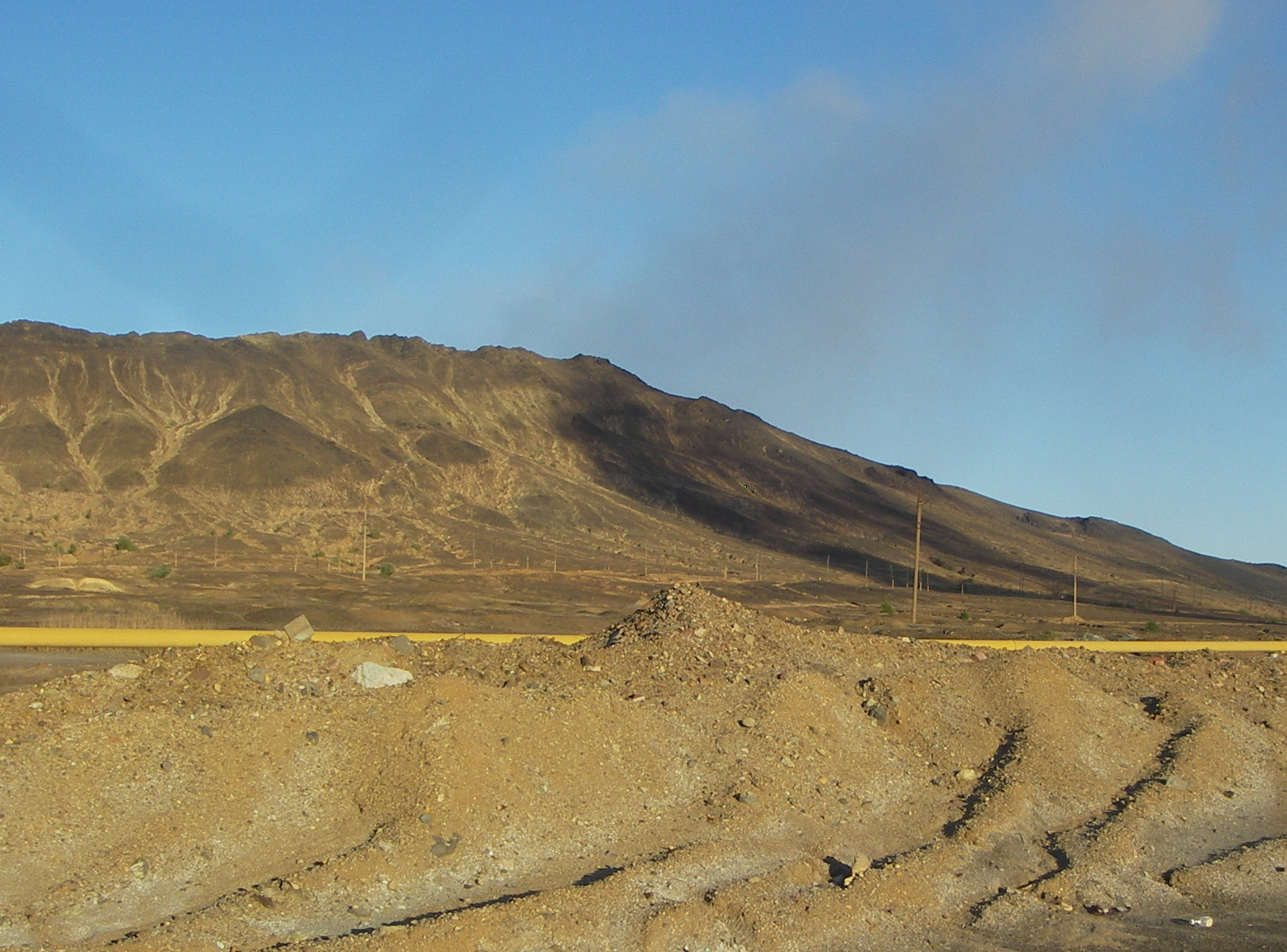 Mountain near town Karabash in Chelyabinsk region, Russia. It was covered with forest before copper melting plant was built nearby. Now it is eroded by (acid) rains.